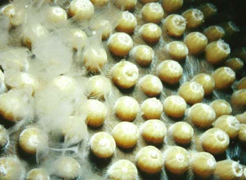 Stony coralspawning